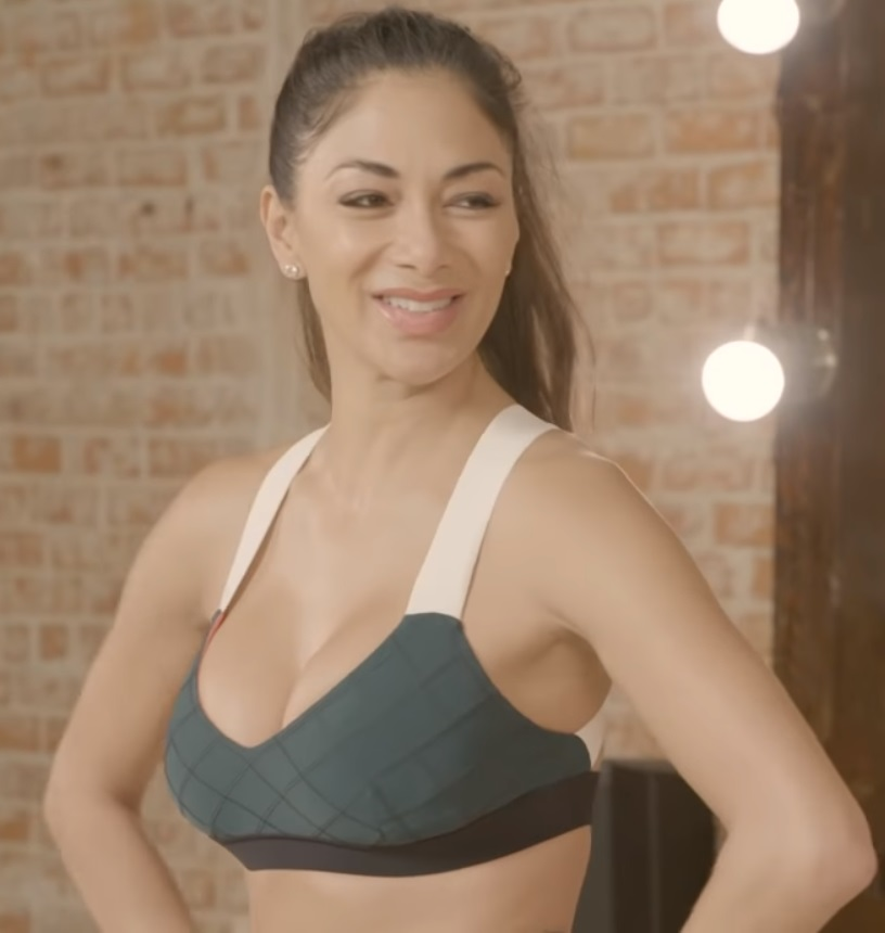 Here’s what happened when Emily Oberg hit the gym with these legendary singers! Check out boxing with Nick Jonas, dance cardio with Nicole Scherzinger and aerial silks with Erykah Badu.